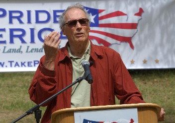 Take Pride Spokesman Clint Eastwood